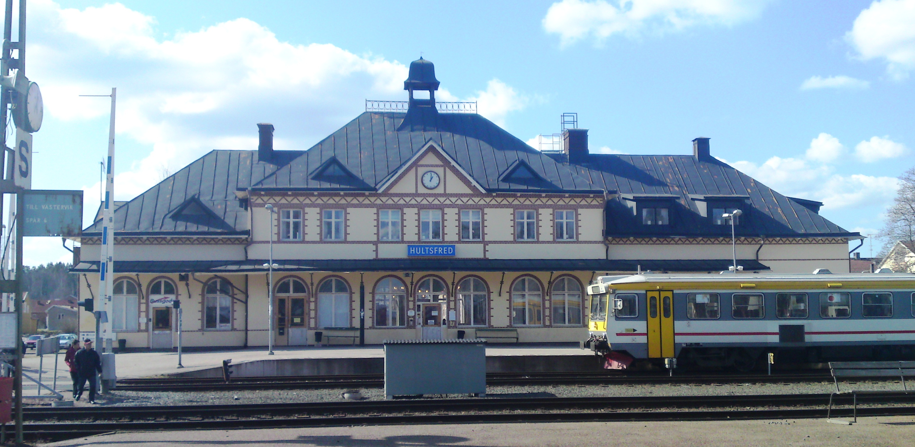 Hultsfred's railway station